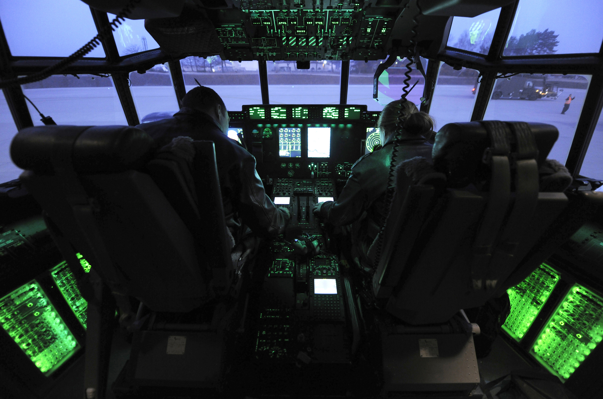 Lt. Col. Joshua Olson and Capt. Marci Walton go through the pre-flight checklist in the flight deck of a C-130J Hercules at Ramstein Air Base, Germany, March 16, 2012. The 37th AS completed a week-long airdrop training exercise with a ten-bundle container deployment system at a drop zone near Grafenwoehr, Germany. Olson is the 37th Airlift Squadron commander and Walton is a 37th AS instructor pilot.